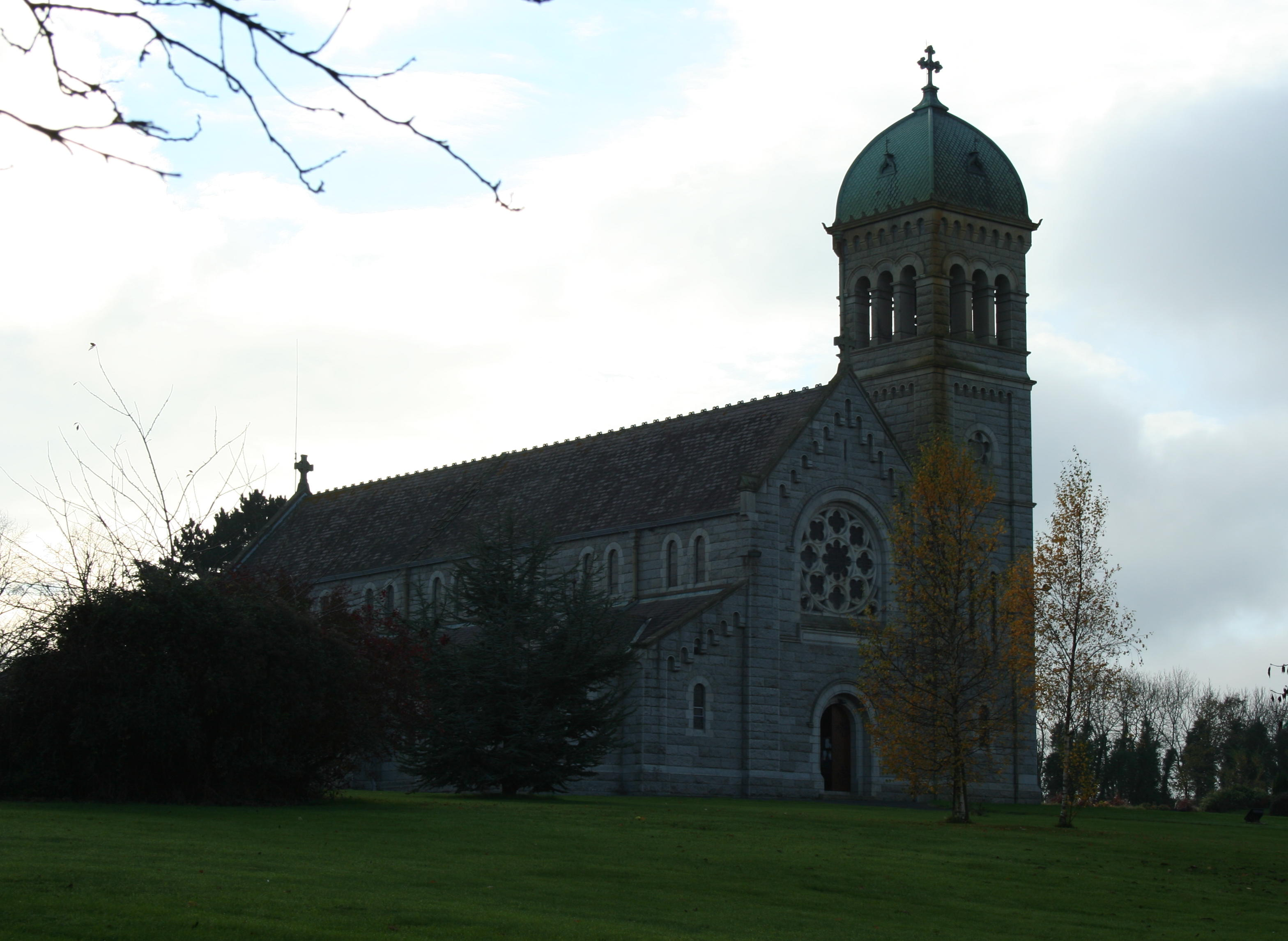 Roman Catholic Church, Dromiskin, County Louth Credit: A Peter Clarke image